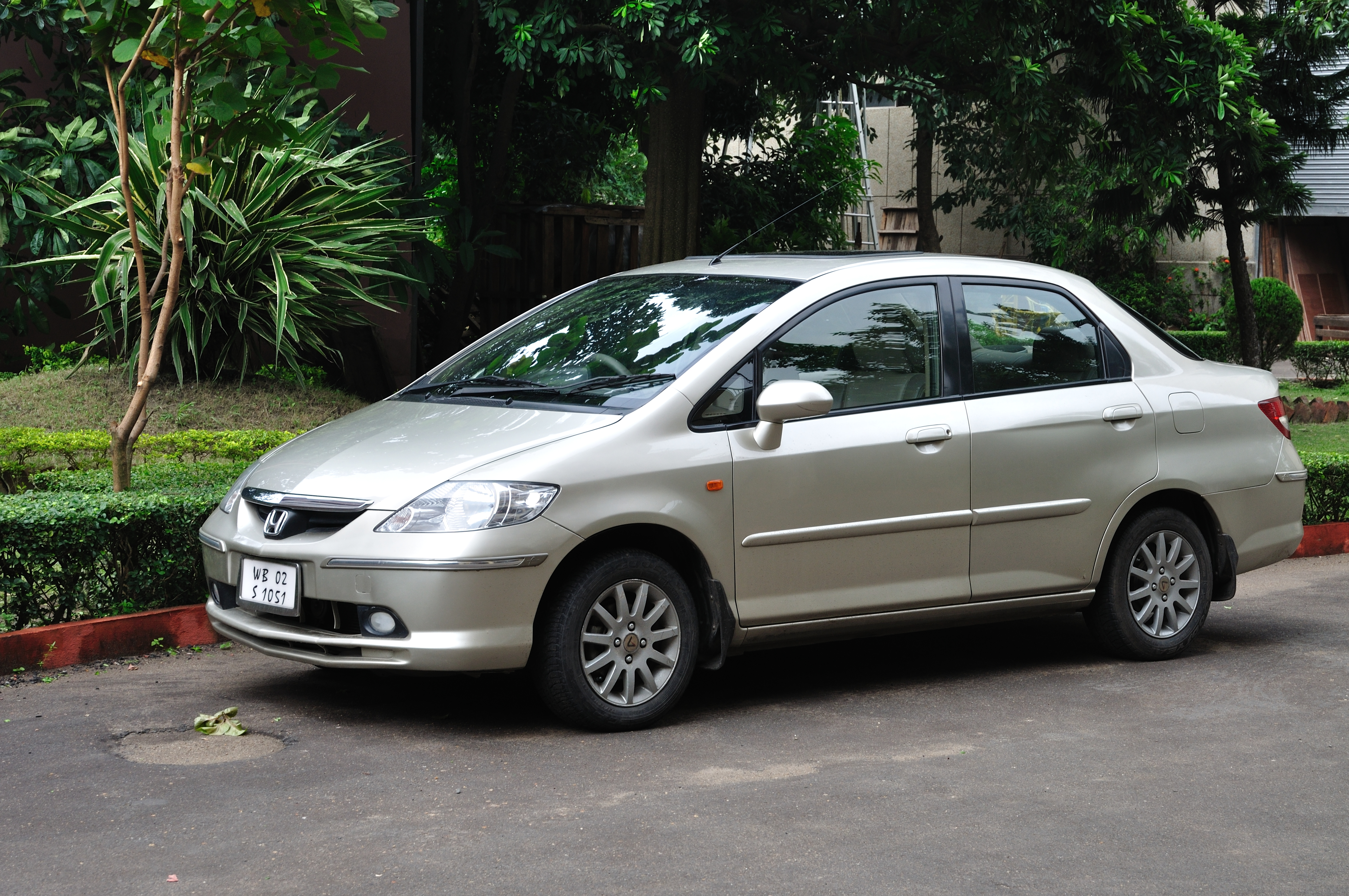 Car. This media file is uploaded with India loves Wikipedia event.